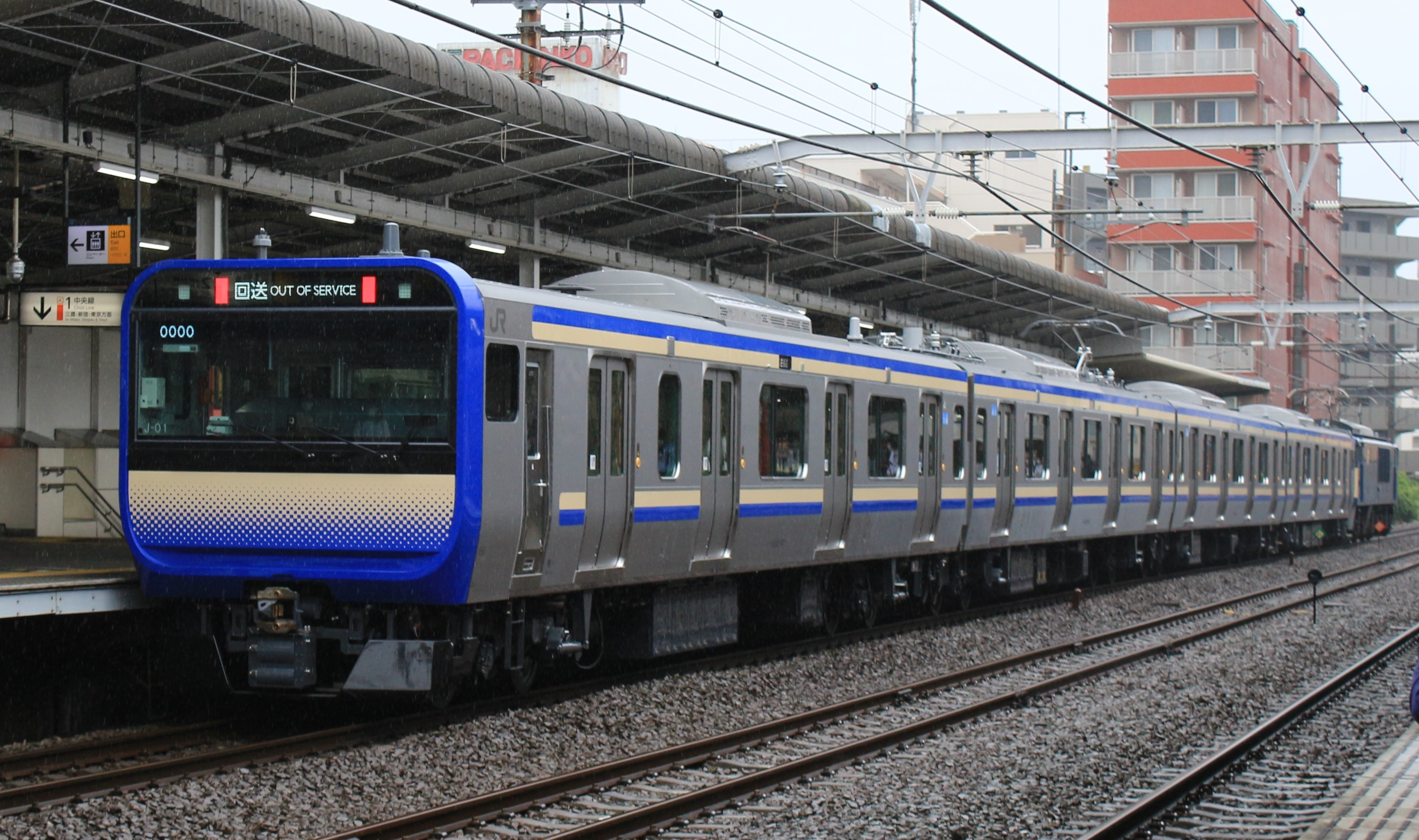 E235-1000 series set J-01 with locomotive EF64 1031